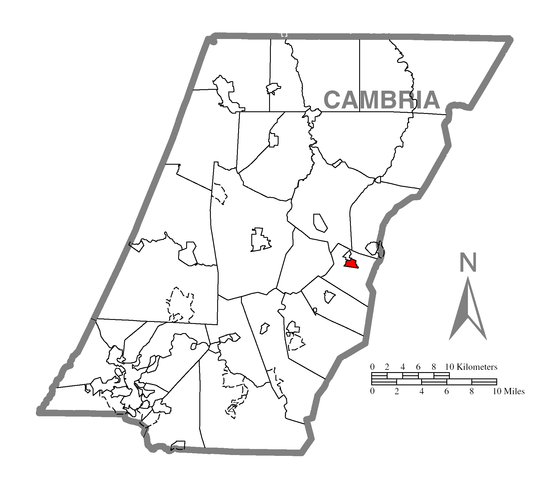 A map of Cambria County showing Cresson, Pennsylvania (alternate) highlighted on the map.